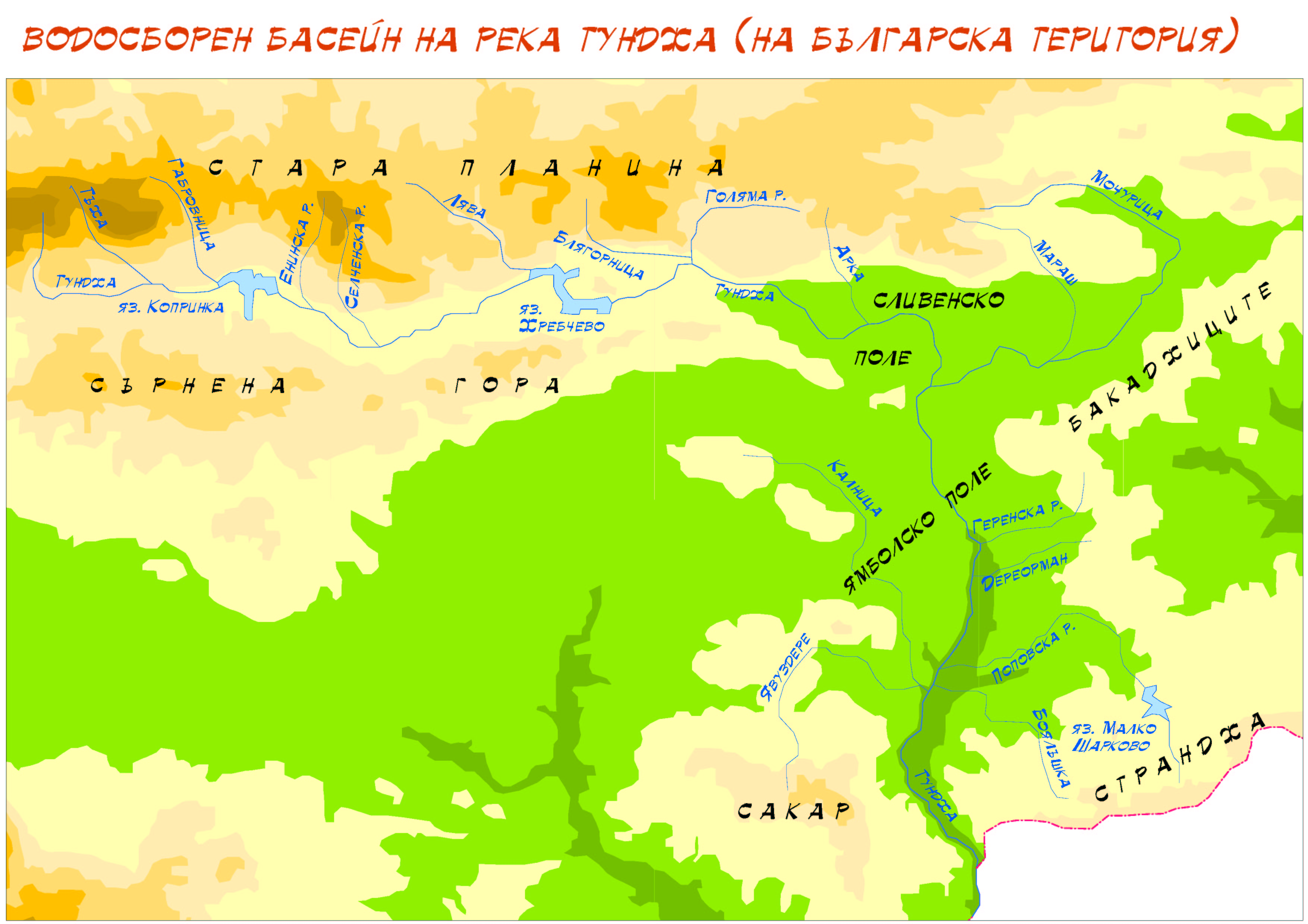 Map of the Bassin of Tundja river in Bulgaria